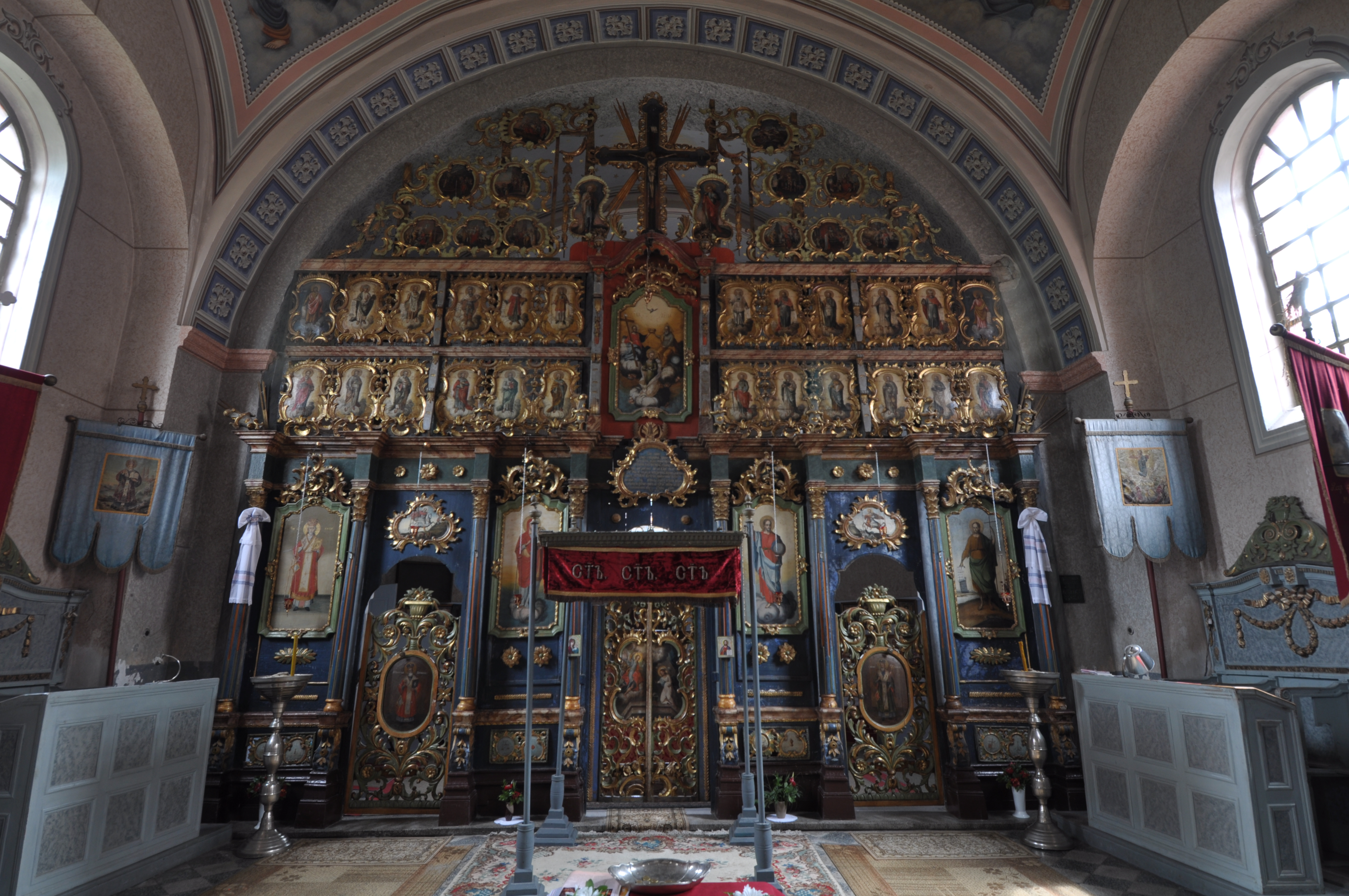 Iconostasis of the church in Beodra (today part of Novo Miloševo)